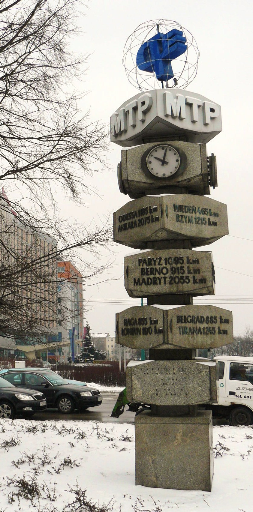 Clock in Rondo Kaponiera, Poznan.